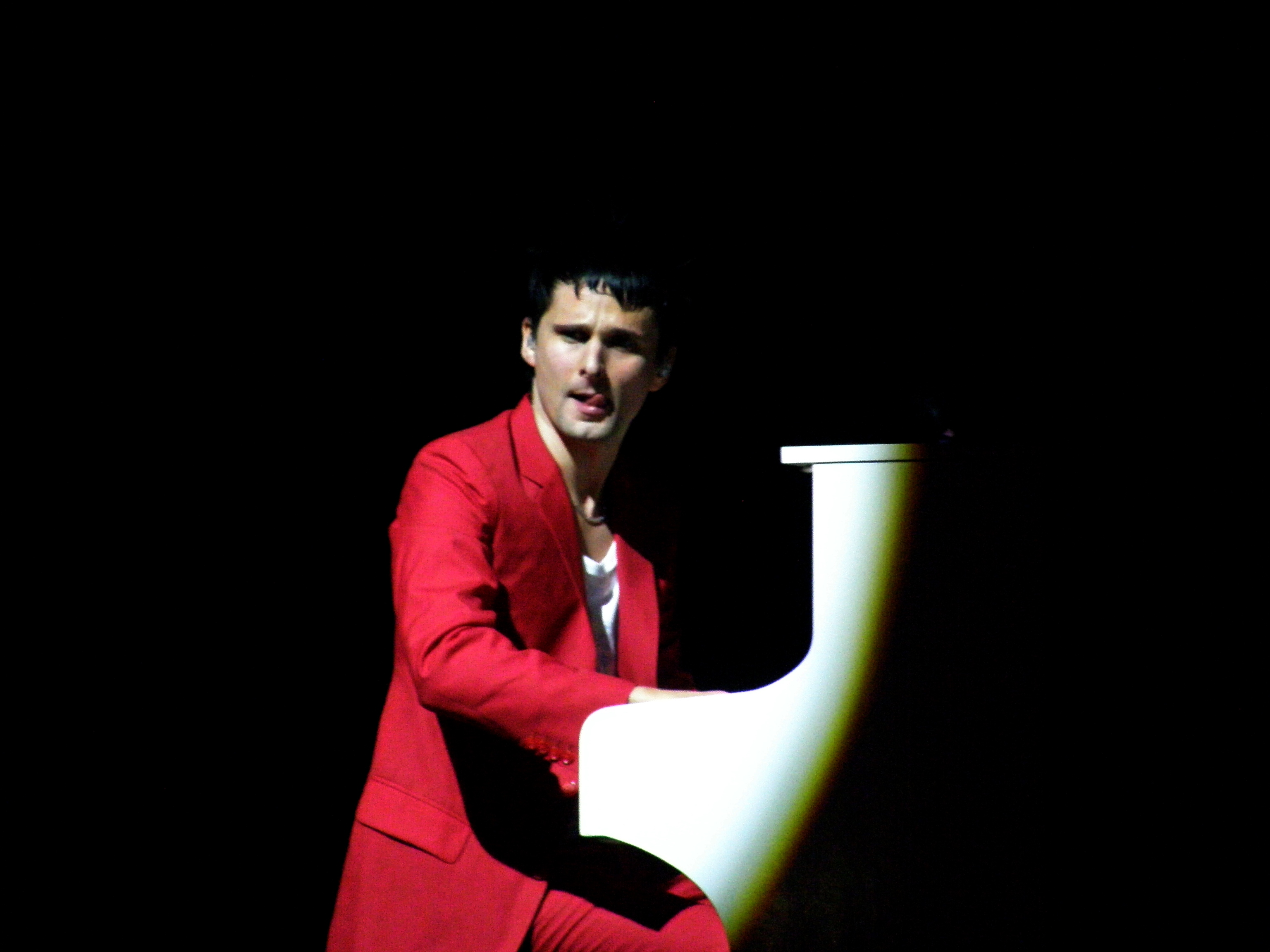 Matthew Bellamy, of British rock band Muse, playing live in Nevada in 2007.